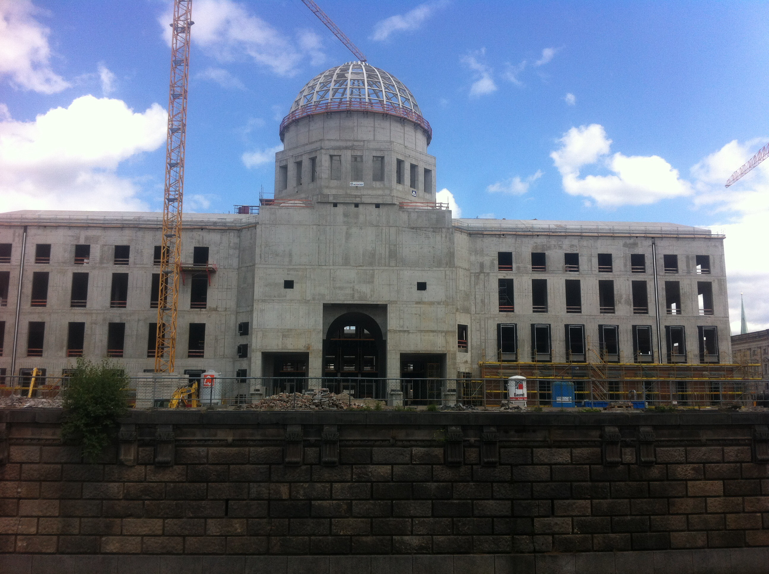 Reconstruction of Berlin City Palace, seen from Schinkelplatz